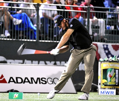 U.S. Coast Guard Petty Officer 3rd Class Ryan Hixson wins the 2008 Military Long Drive Championship presented by 7UP with a drive of 389 yards in Mesquite, Nev. With the victory in the Army Family and Morale, Welfare and Recreation Command event, Hixson won $10,000 and an exemption into the 2009 RE/MAX World Long Drive Championship. Twenty competitors will vie for the 2009 Military World Long Drive Championship presented by 7UP on Oct. 28 in Mesquite.